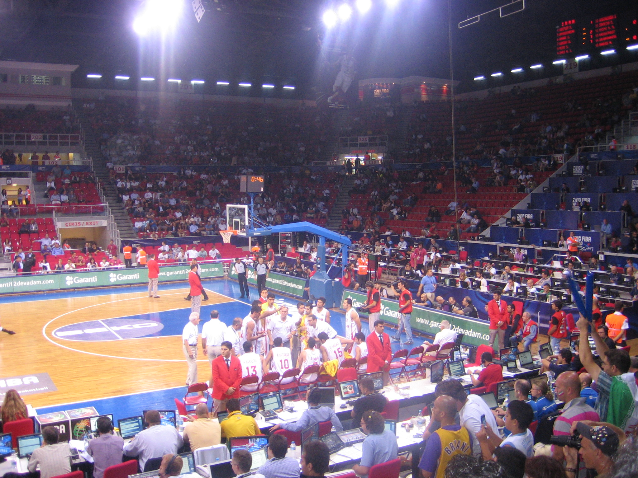 Iran Basketball Team attended the WC2010 Turkey